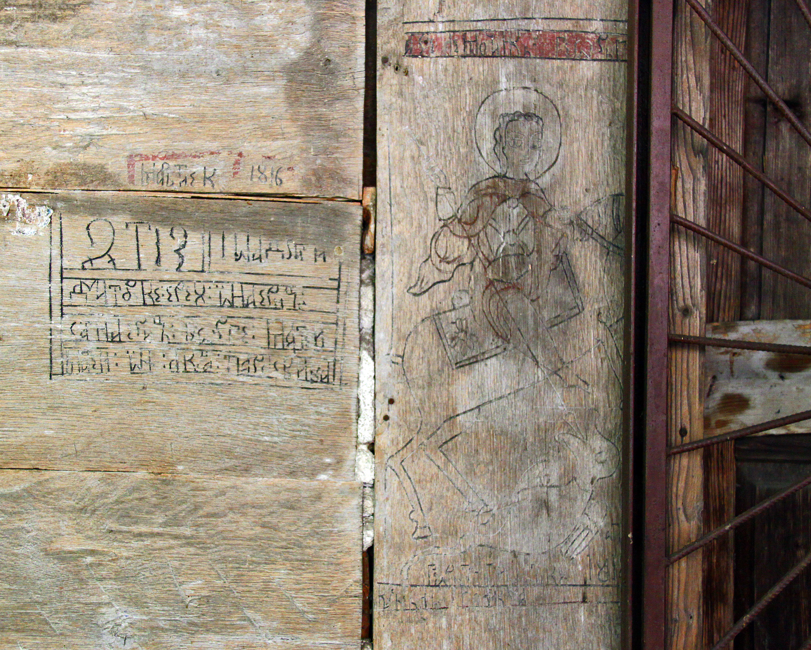 Boia, Gorj: the wooden church. Inscription.